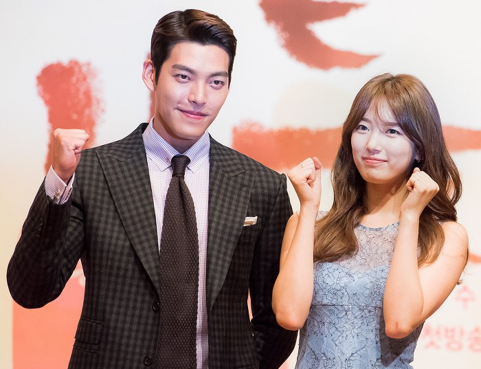 Kim Woo-bin and Bae Suzy at "Uncontrollably Fond" press conference, 4 July 2016